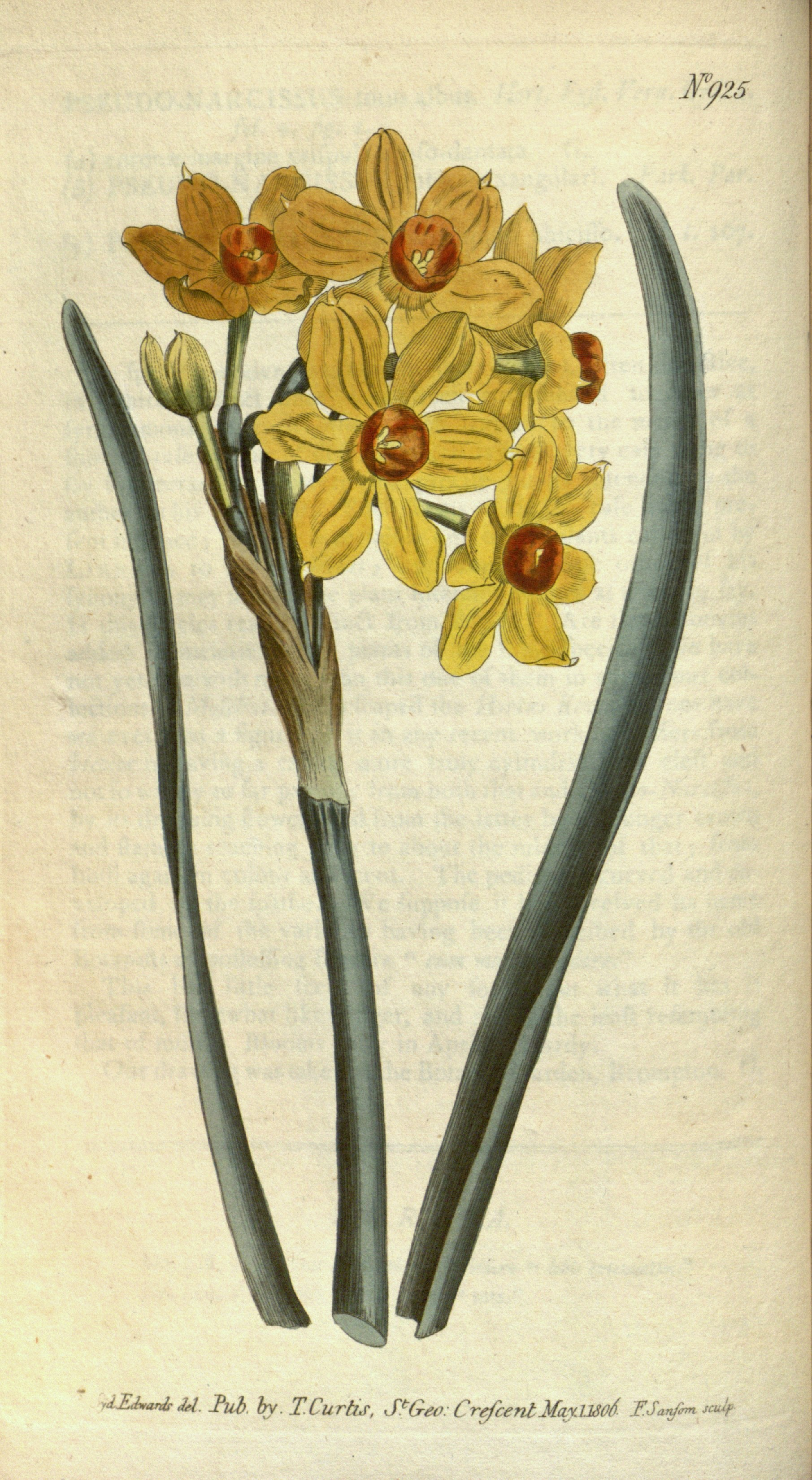 Bot. Mag. 24: t. 925. 1806